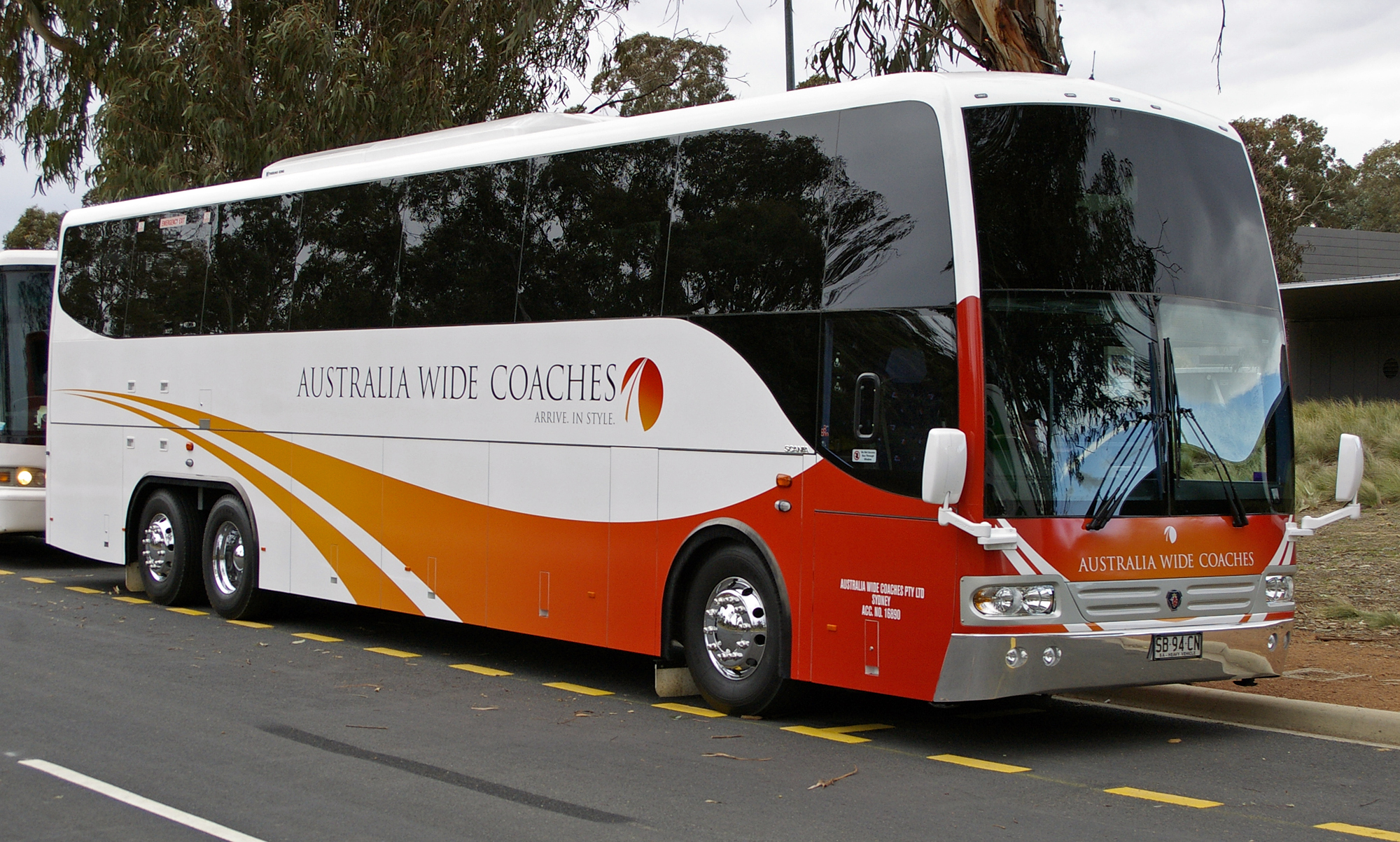 Brand new Coach Design bodied Scania K480 EB6X2NI Opticruise owned and operated by Australia Wide Coaches.